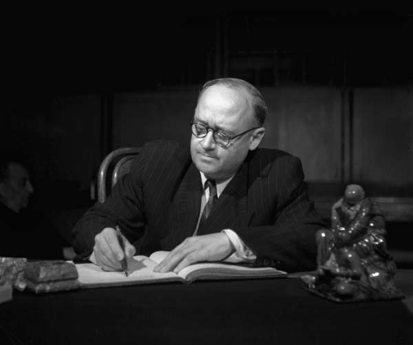 Images from Vahan Kochar's collection. Author:Andranik Kochar